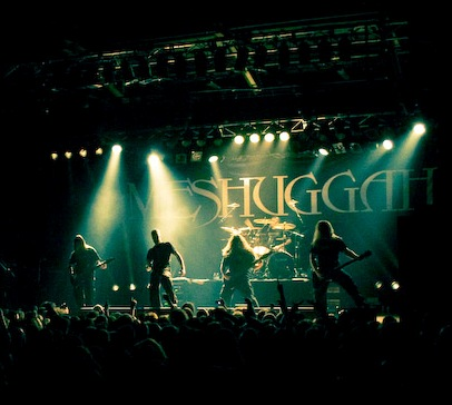 Swedish band Meshuggah performing on a live show in Melbourne - October 15, 2008.